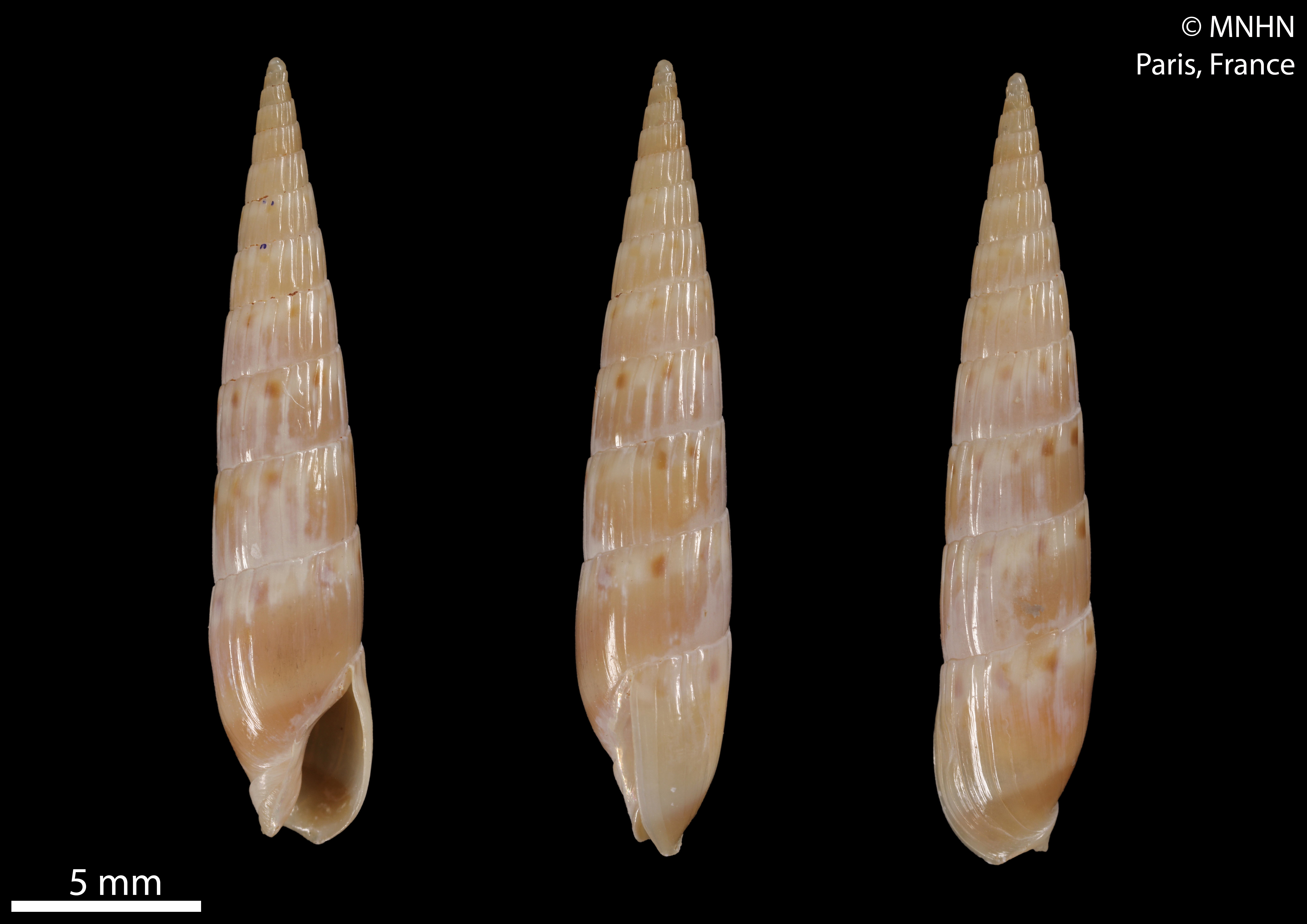 Hastula kiiensis Chino & Terryn, 2019 PARATYPE (MNHN-IM-2014-7008). Size: 21.3 mm. Locality: Japan, Wakayama Prefecture, off Minabe